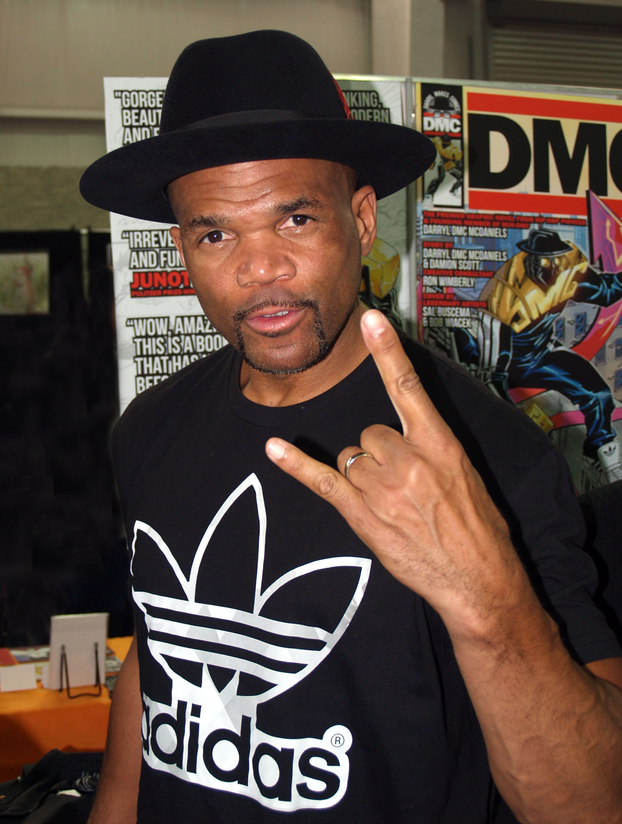 Hip hop music artist and comics publisher Darryl "DMC" McDaniels of Run–D.M.C. in Artists Alley shortly after a panel on hip hop and comics on Sunday, October 12, 2014 at the Jacob K. Javits Convention Center in Manhattan, Day 4 of the 2014 New York Comic Con. This photo was created by Luigi Novi. It is not in the public domain, and use of this file outside of the licensing terms is a copyright violation.